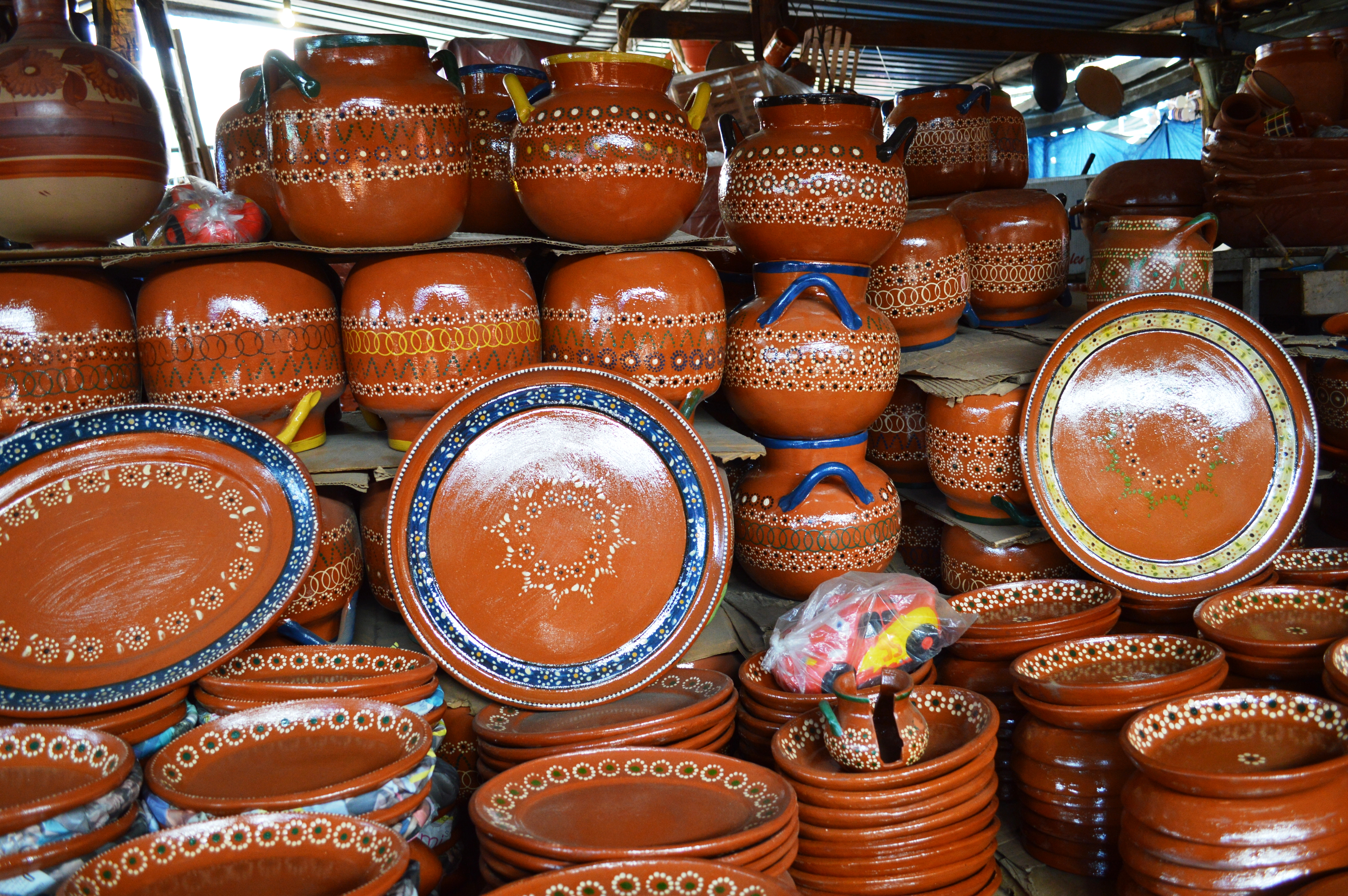 Tradional pottery dishes for sale in Tonala, Jalisco